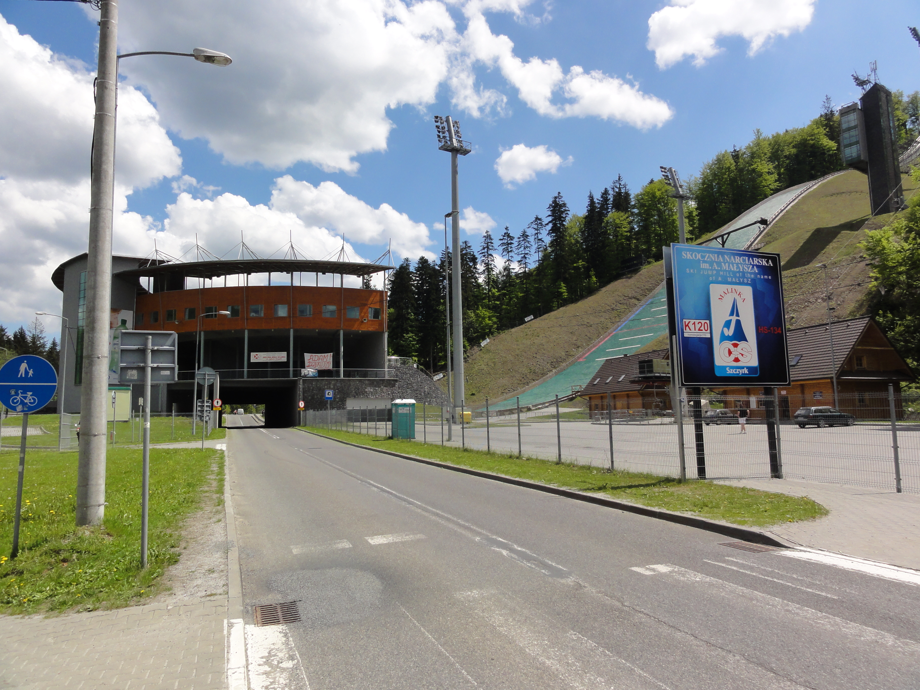 Voivodeship road 942 (Poland) under Malink Ski Jumping Hill in Wisła